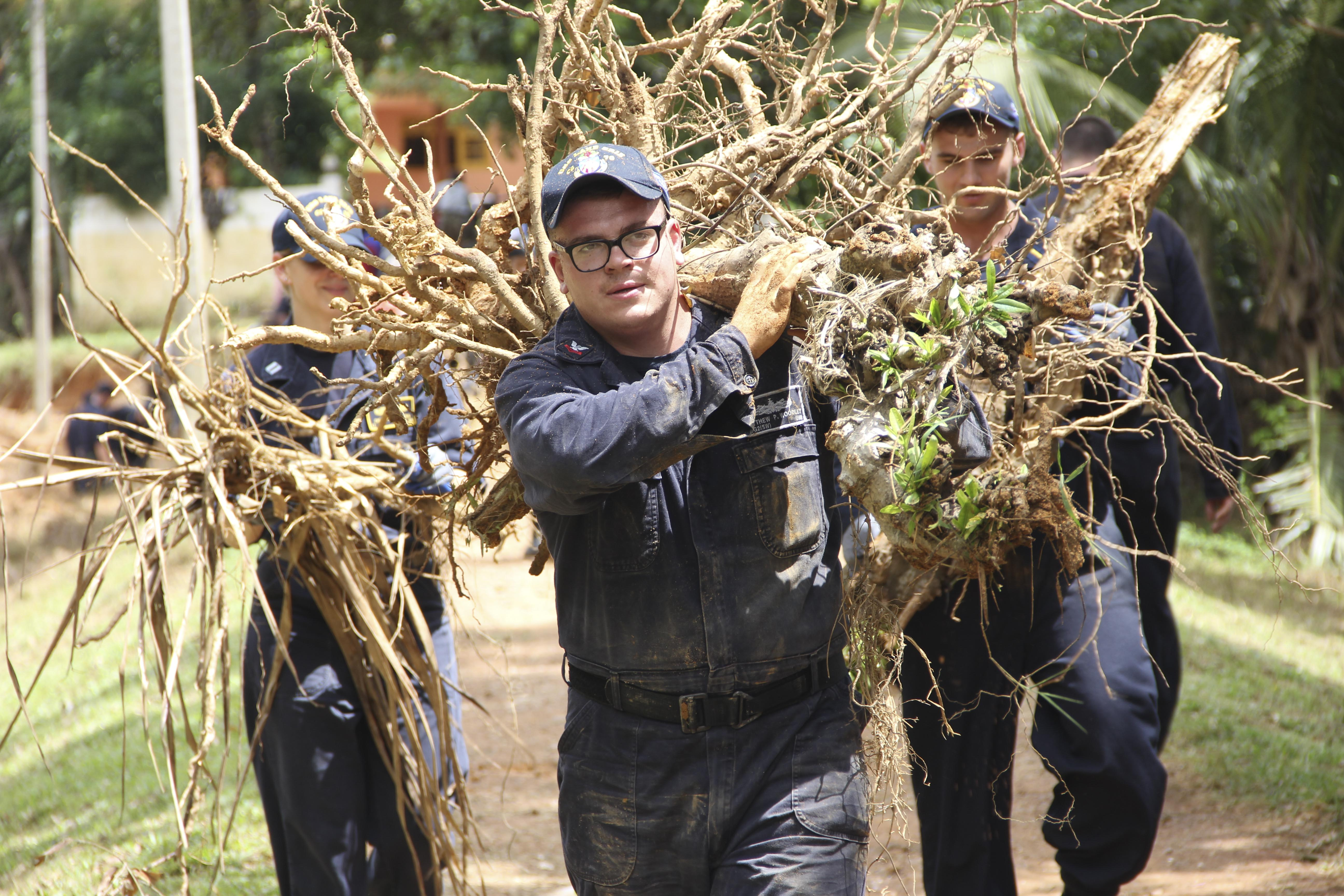 MATARA, Sri Lanka (June 13, 2017) U.S. Navy Sailors assigned to the Ticonderoga-class guided-missile cruiser USS Lake Erie (CG 70) work with Sri Lankan marines and International Committee of the Red Cross in Matara, Sri Lanka during humanitarian assistance operations in the wake of severe flooding and landslides that devastated many regions of the country. (U.S. Navy photo by Ensign Nicholas Ransom/Released)170613-N-OU129-318 Join the conversation: navylive.dodlive.mil